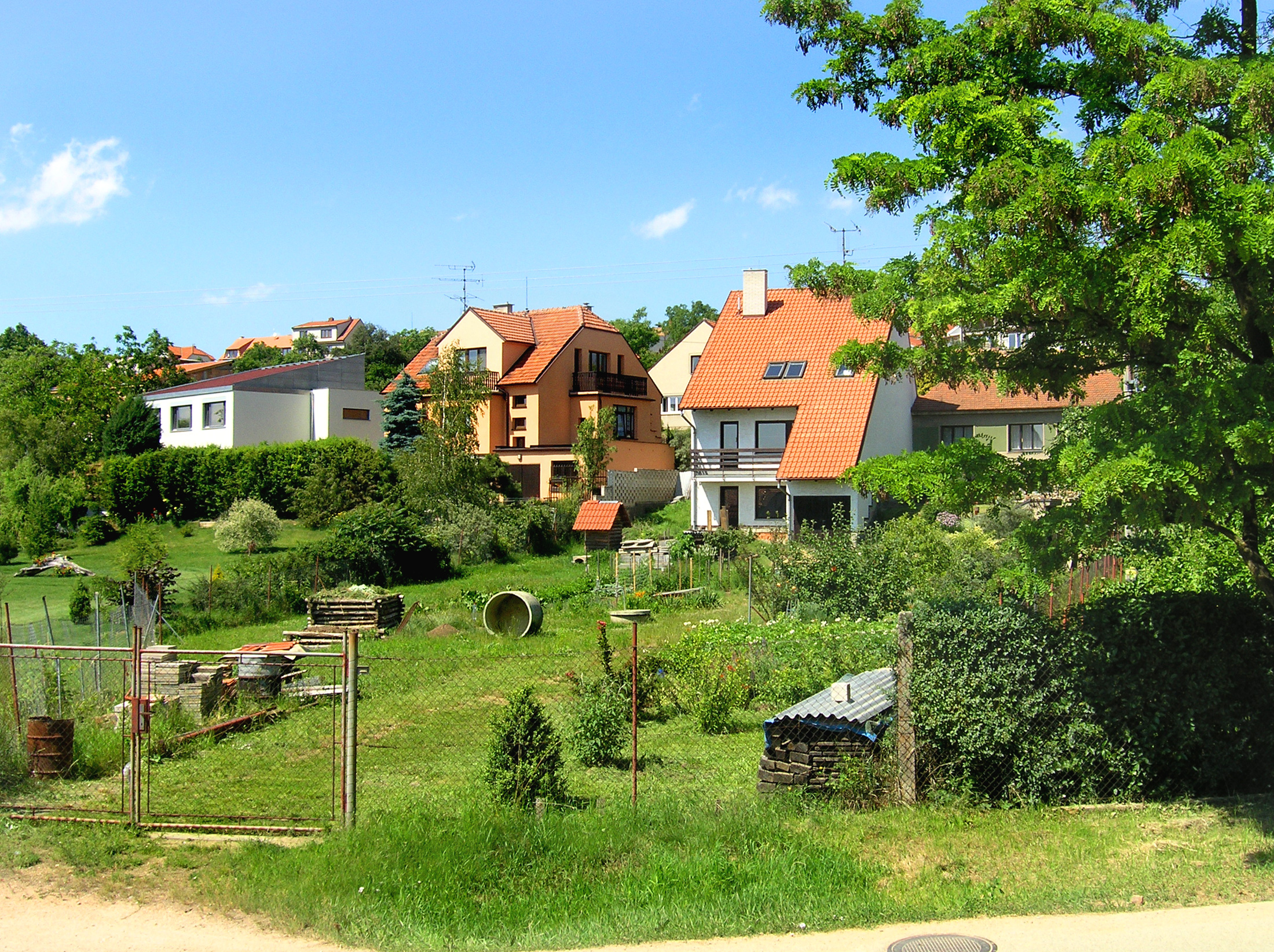 U Zvoničky street in Ořešín quarter in Brno, Czech Republic